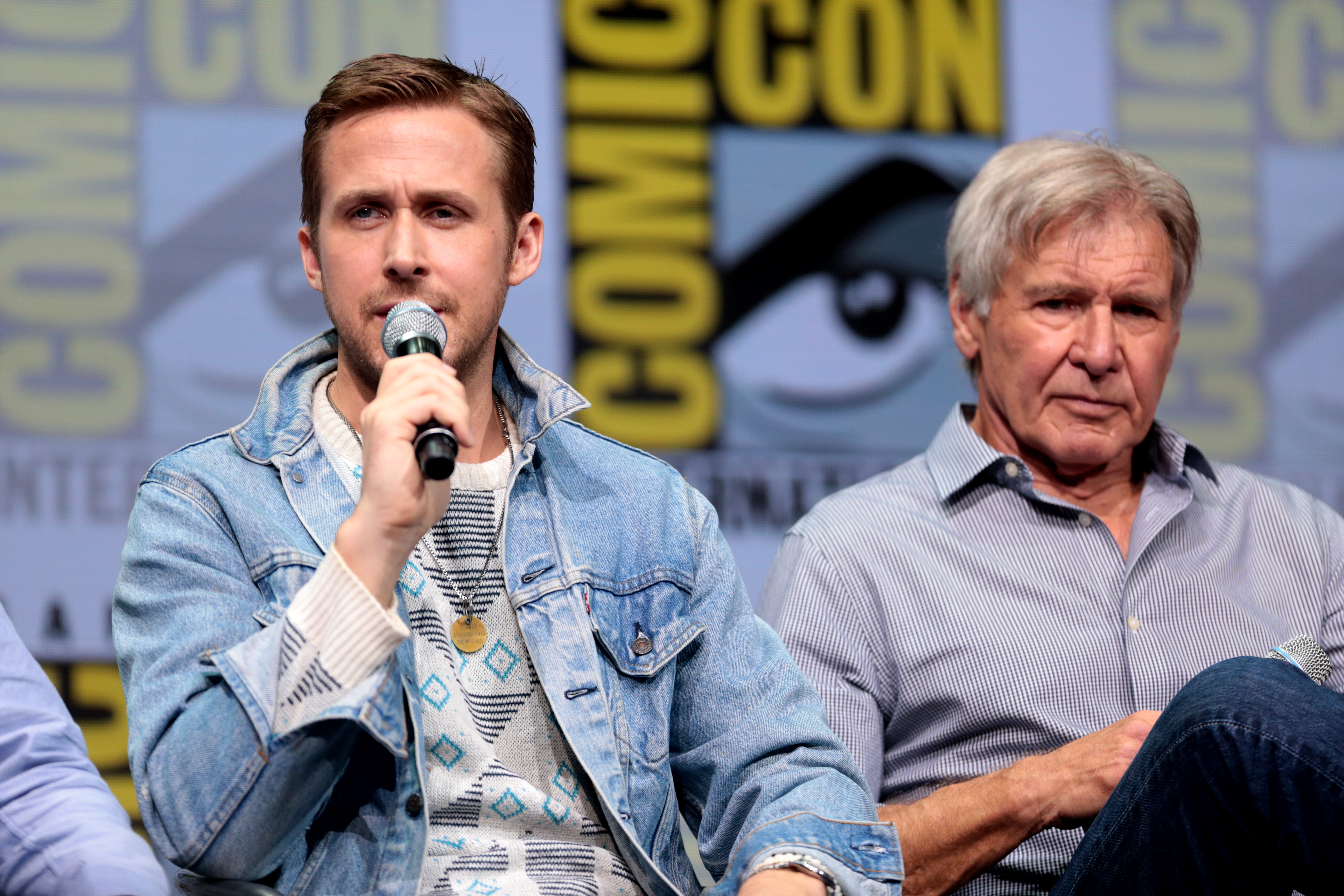 Ryan Gosling and Harrison Ford speaking at the 2017 San Diego Comic Con International, for "Blade Runner 2049", at the San Diego Convention Center in San Diego, California.